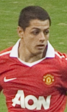 Javier Hernandez of Manchester United in action against the MLS All-Star team.